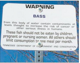 TWRA contaminant advisory sign